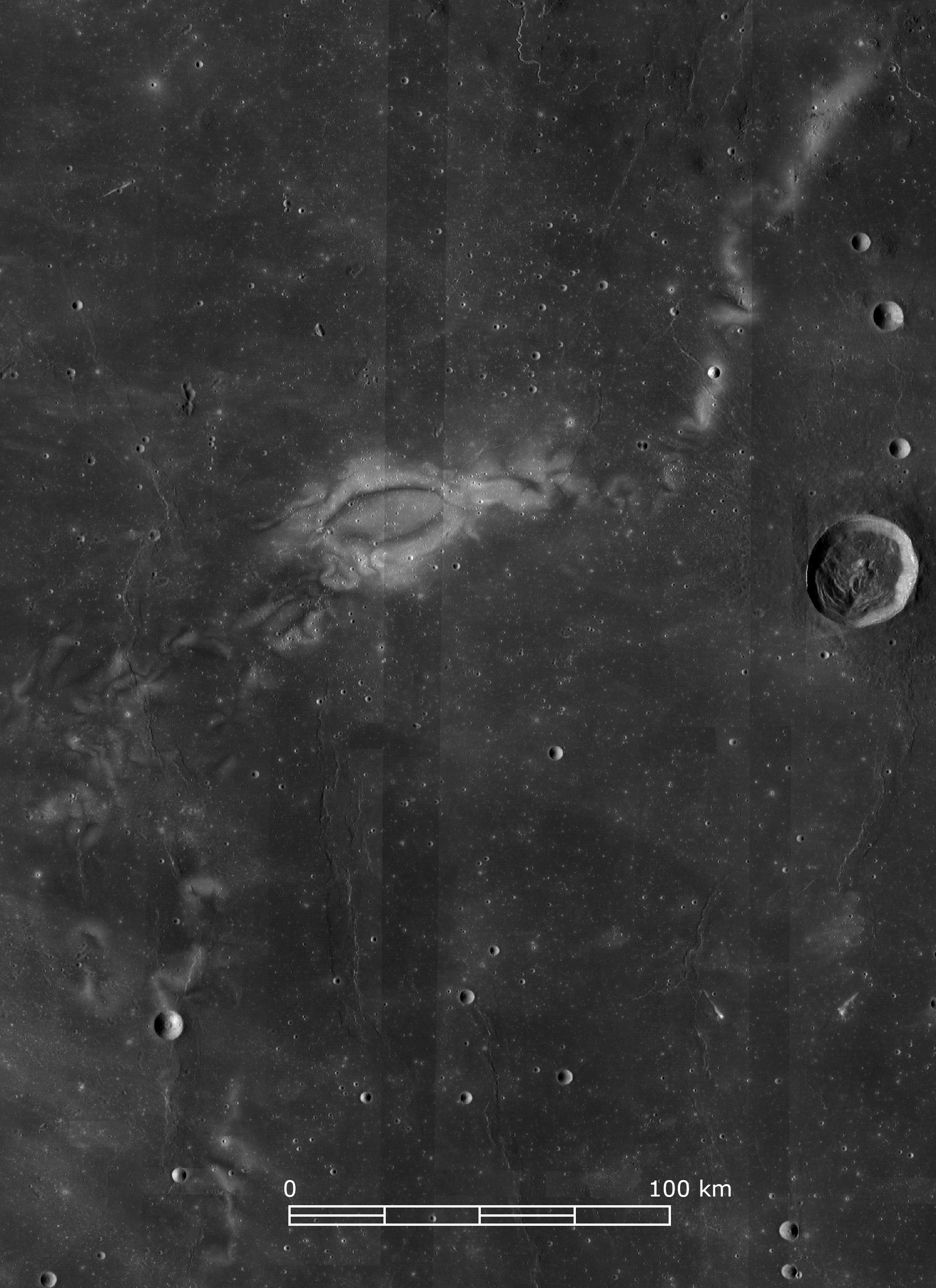 Monochrome albedo image of the lunar swirl Reiner Gamma. Image cropped from LRO WAC global mosaic